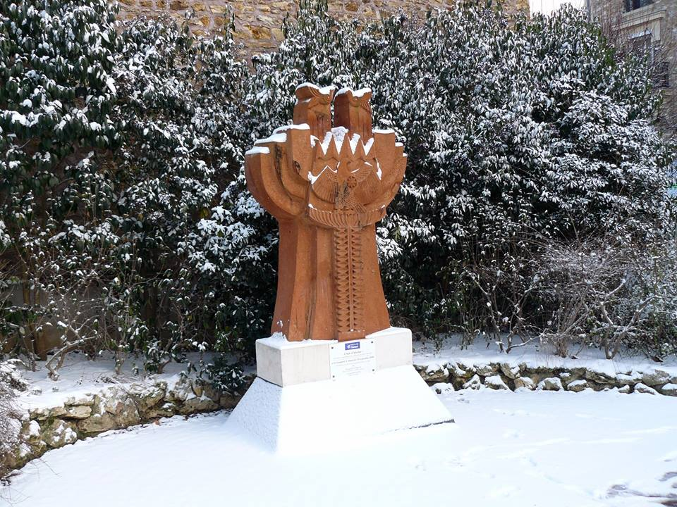 Œuvre de Gurgen Hakobyan consacré à l'amitié arménienne française